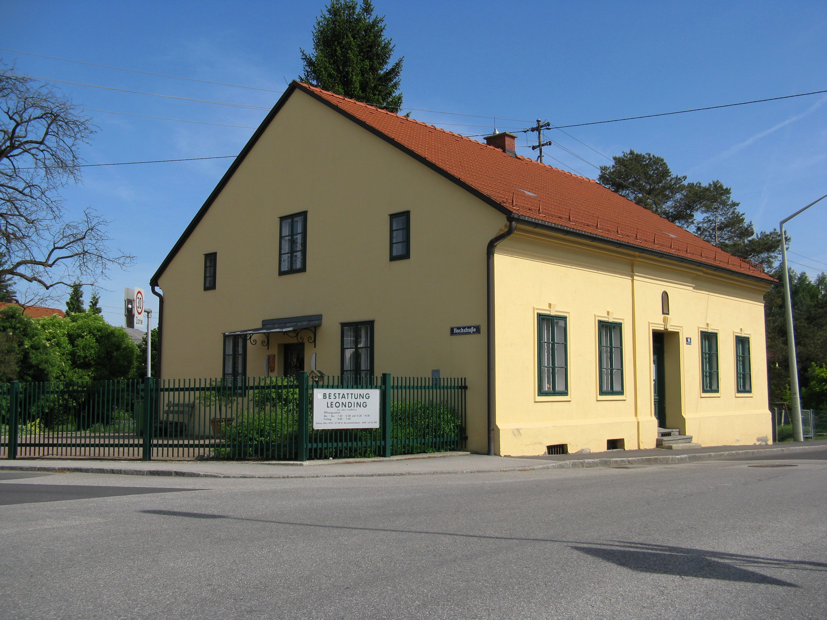 The House where Adolf Hitler lived with his parents and siblings between 1898 and 1904 in Leonding, Austria. The building houses the office of the Leonding Undertakers nowadays. The Adress is Michaelsbergstrasse 16.